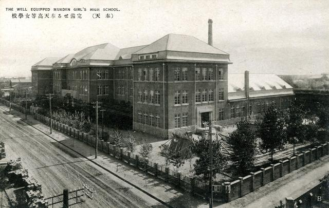 Mukden Girls' High School